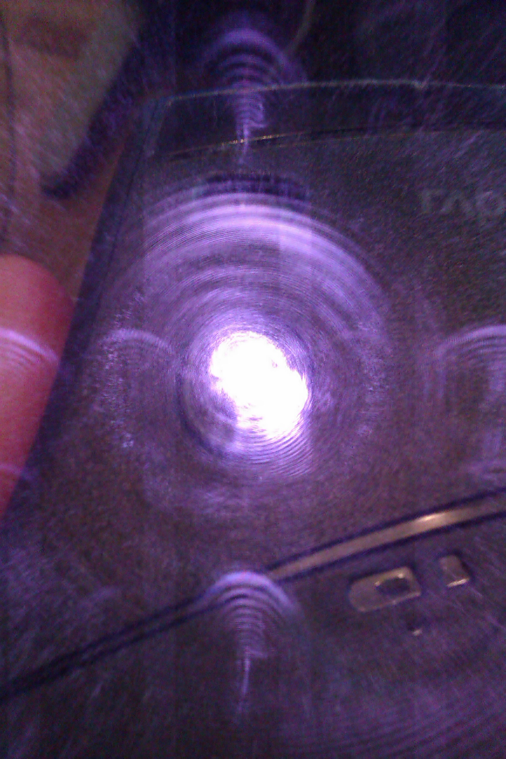 Invisible to human eye infrared light from a laser mouse captured on digital camera